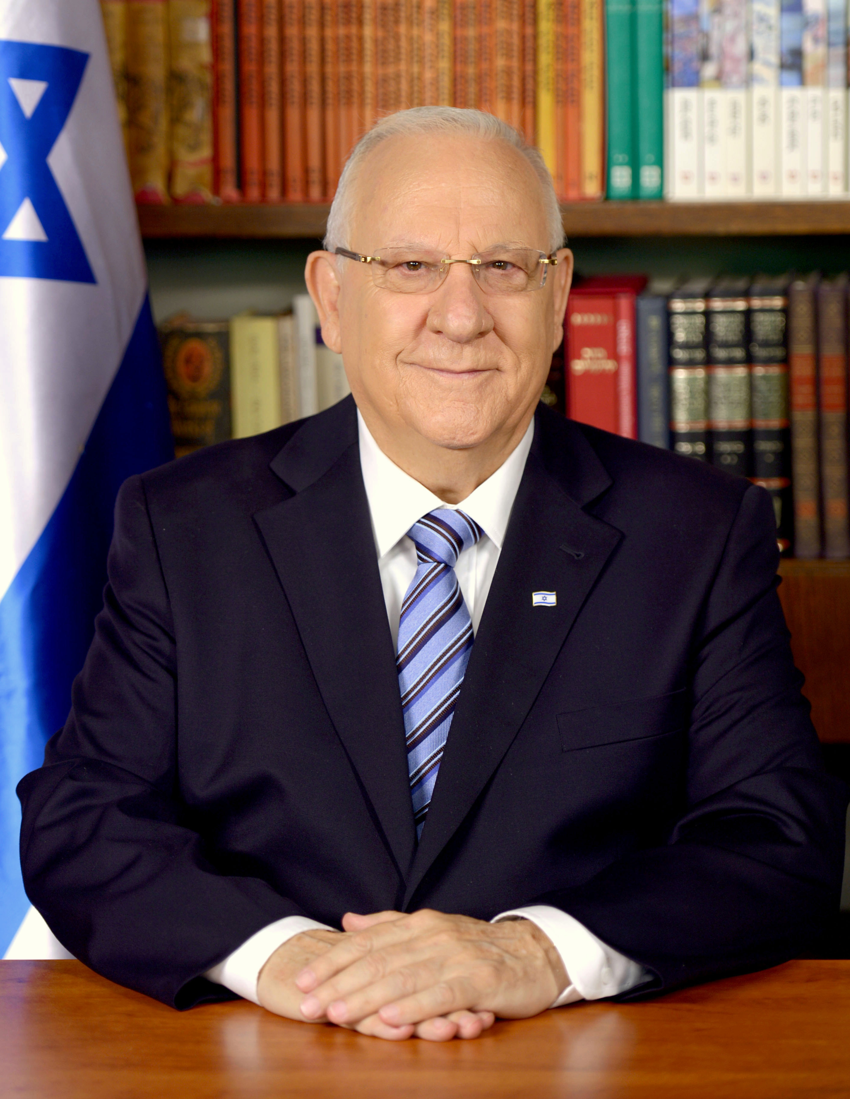 Official photo of Reuven Rivlin, the 10th president of the state of Israel